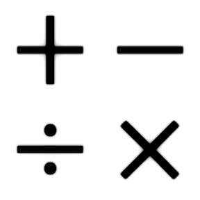 Basic arithmetic operators.